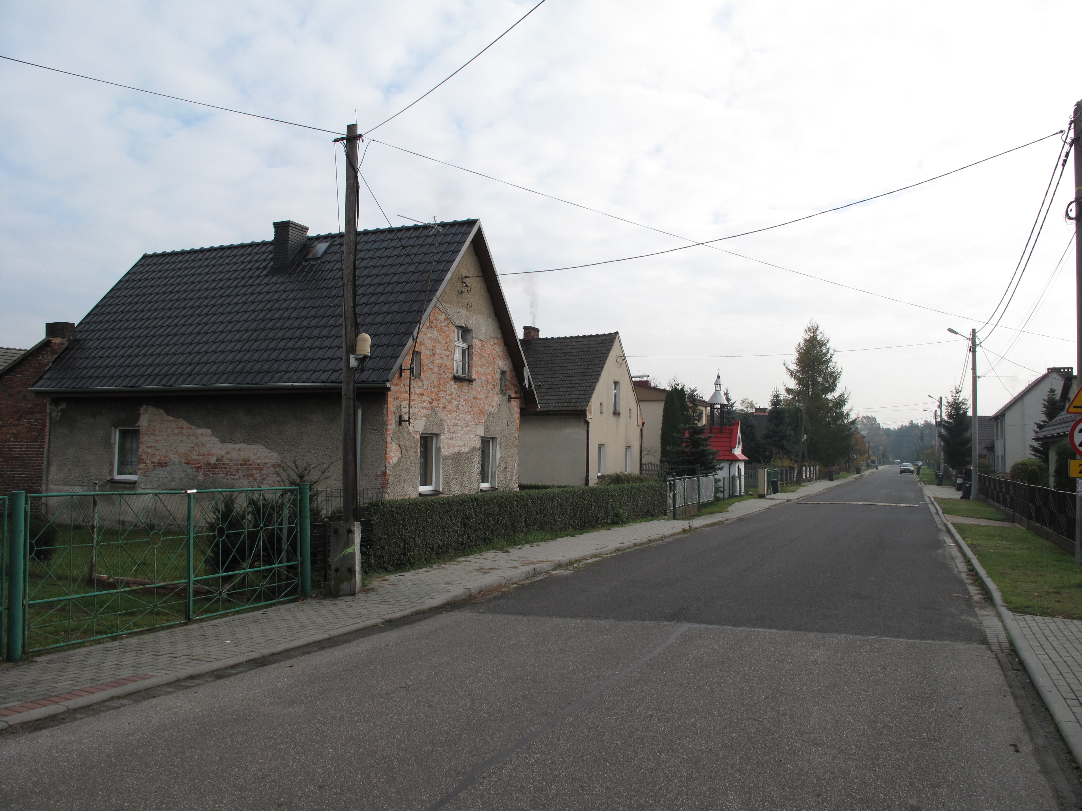 Grabówka, Kędzierzyn-Koźle County, Poland